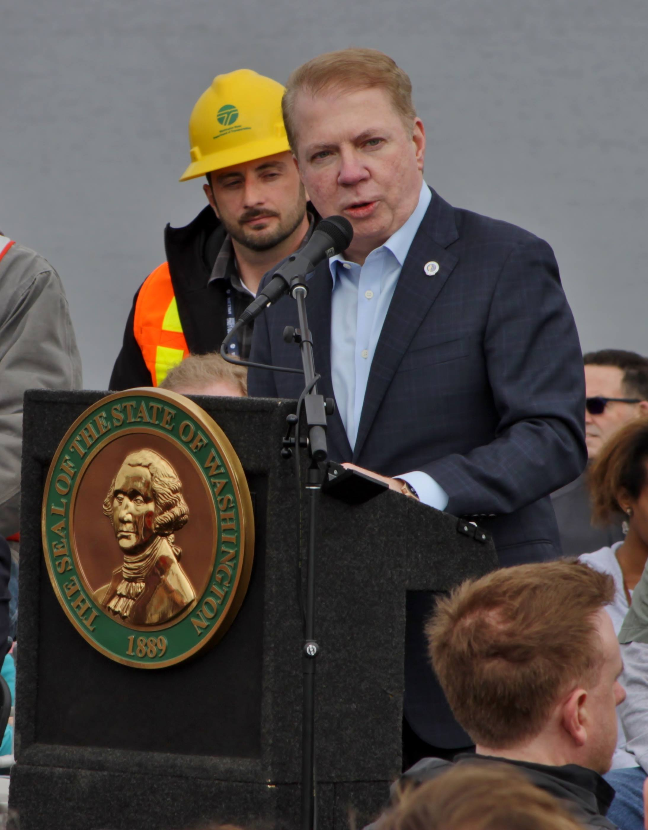 Mayor of Seattle Ed Murray speaking at the opening ceremonies for the new Evergreen Point (SR 520) Floating Bridge on April 2, 2016.